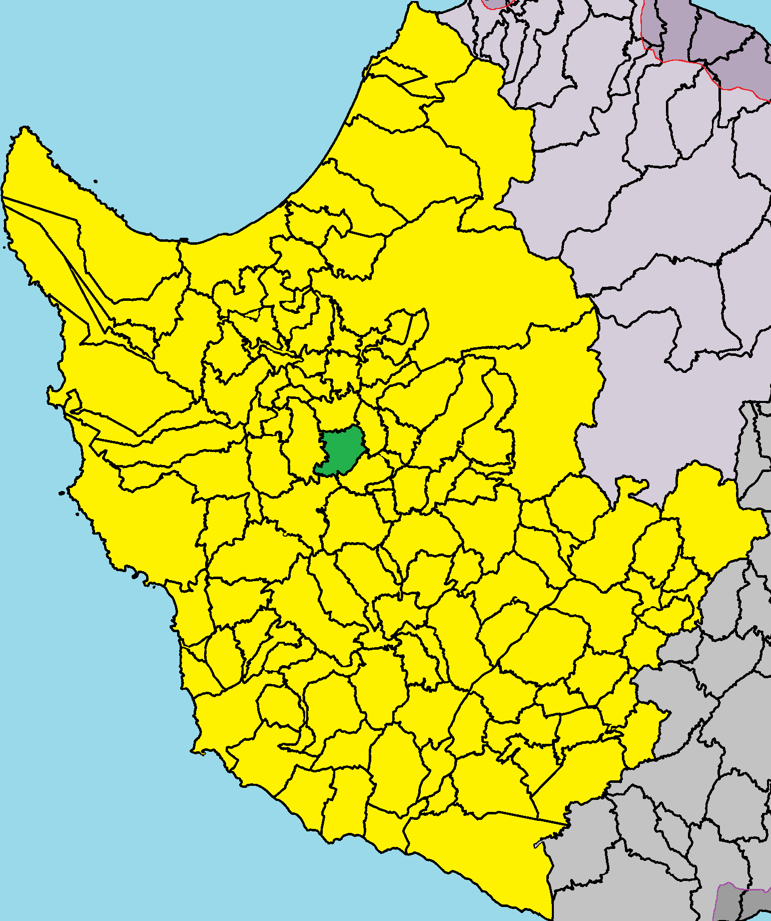 Drymou in Paphos District.